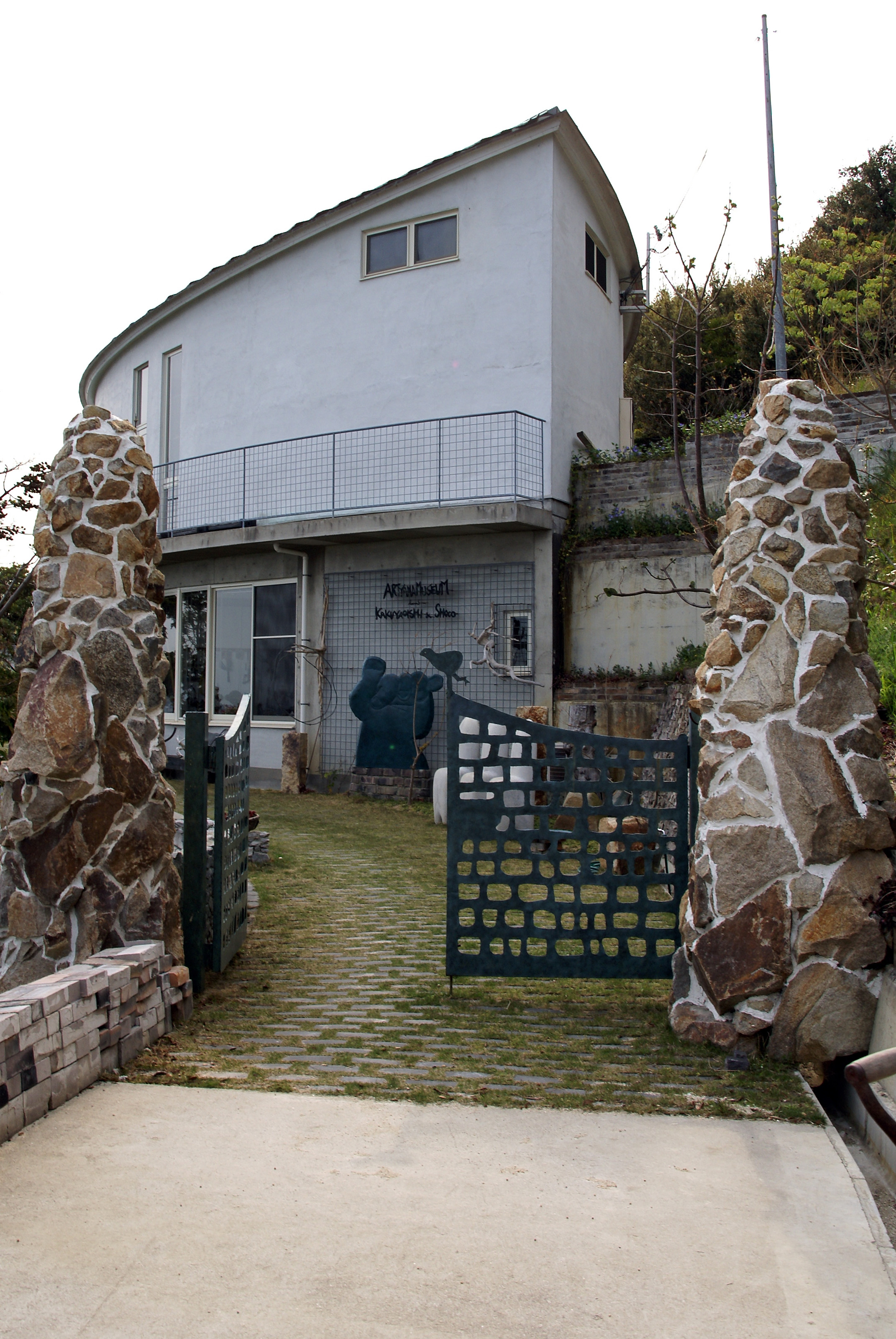 Awaji Oiso Artyama in Awaji, Hyogo prefecture, Japan